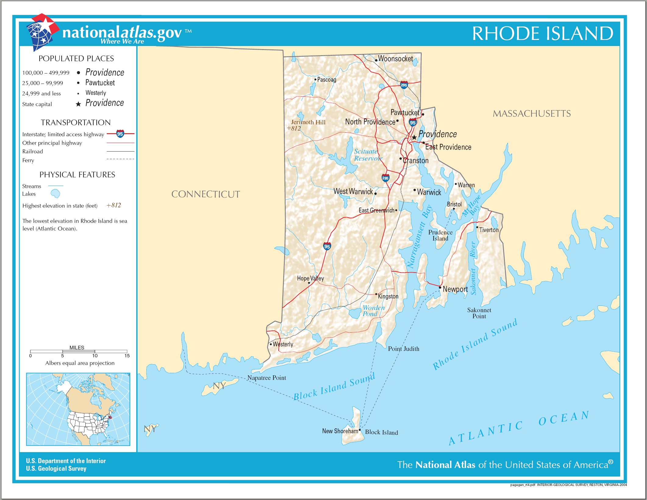 National Atlas map of Rhode Island.